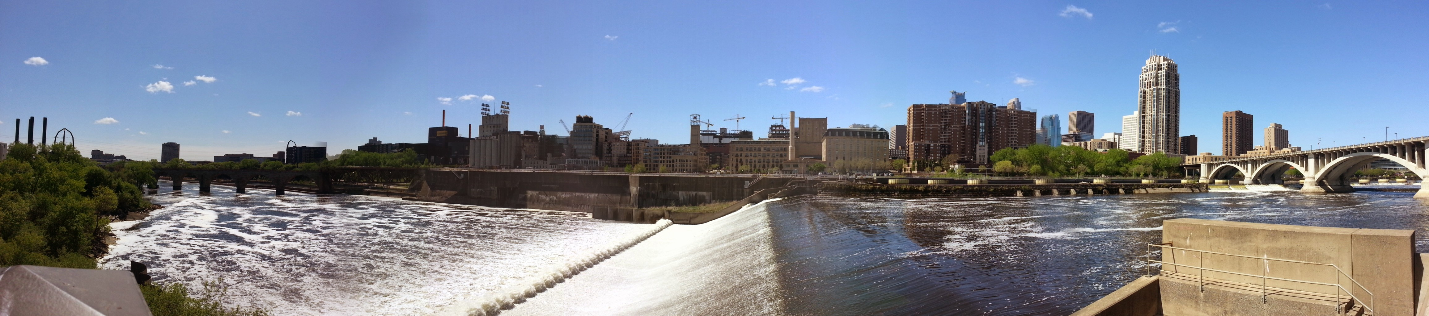 St Anthony Dam, Minneapolis, MN, USA